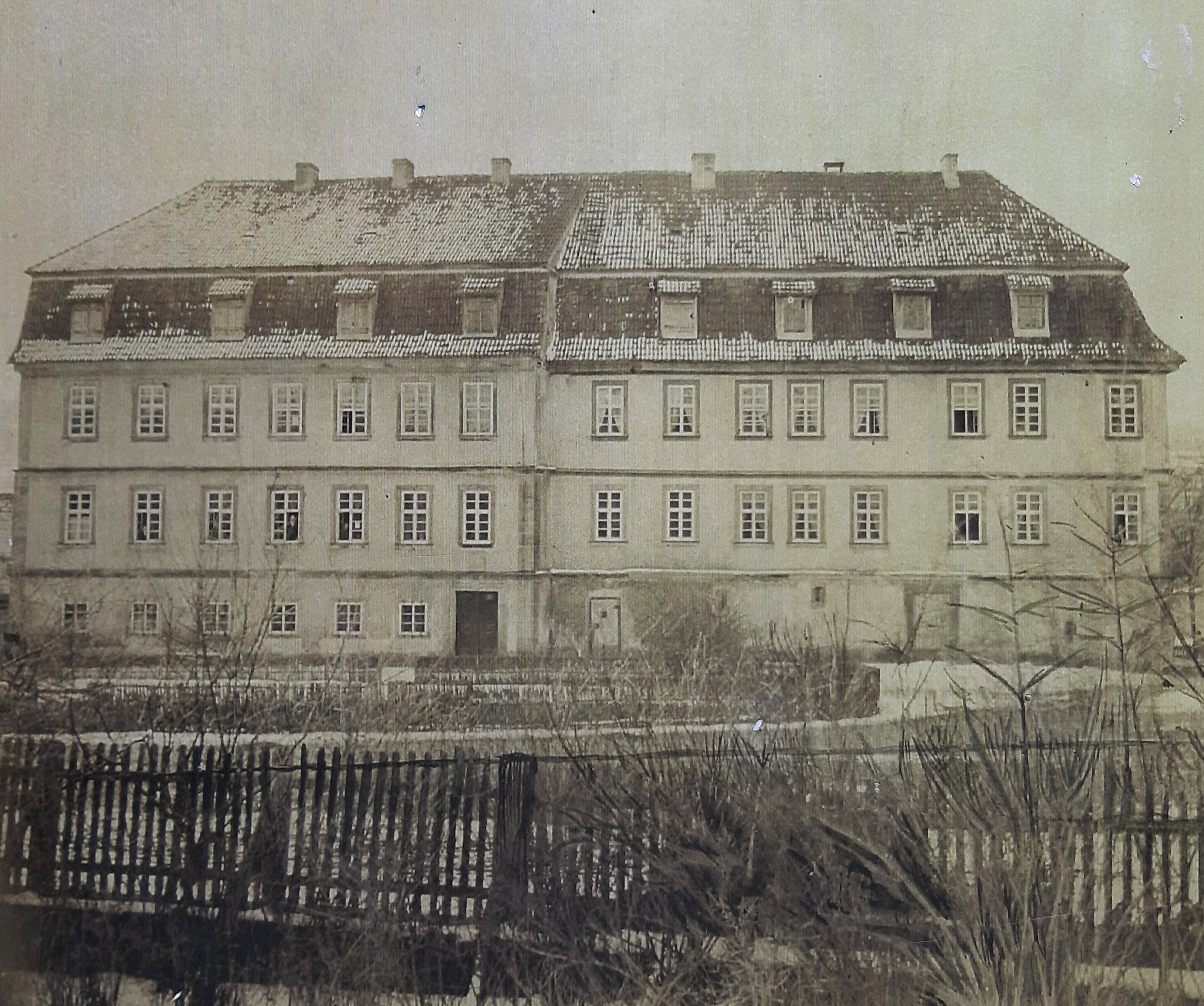 Wechmarsches Schloss